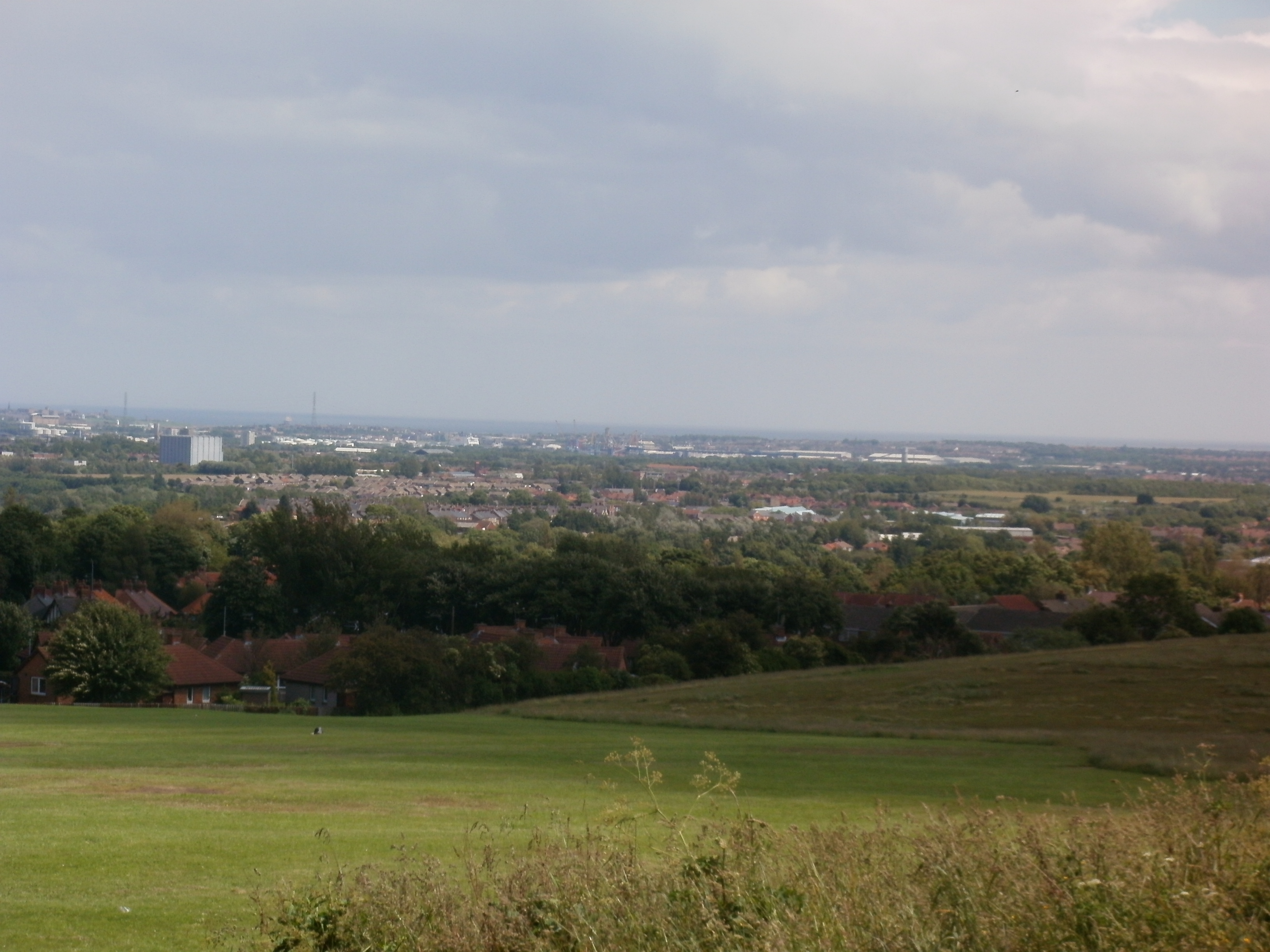 A view east from Windy Nook in Gateshead. The urban areas in western Newcastle are visible and, in the background, the North Sea can be observed.